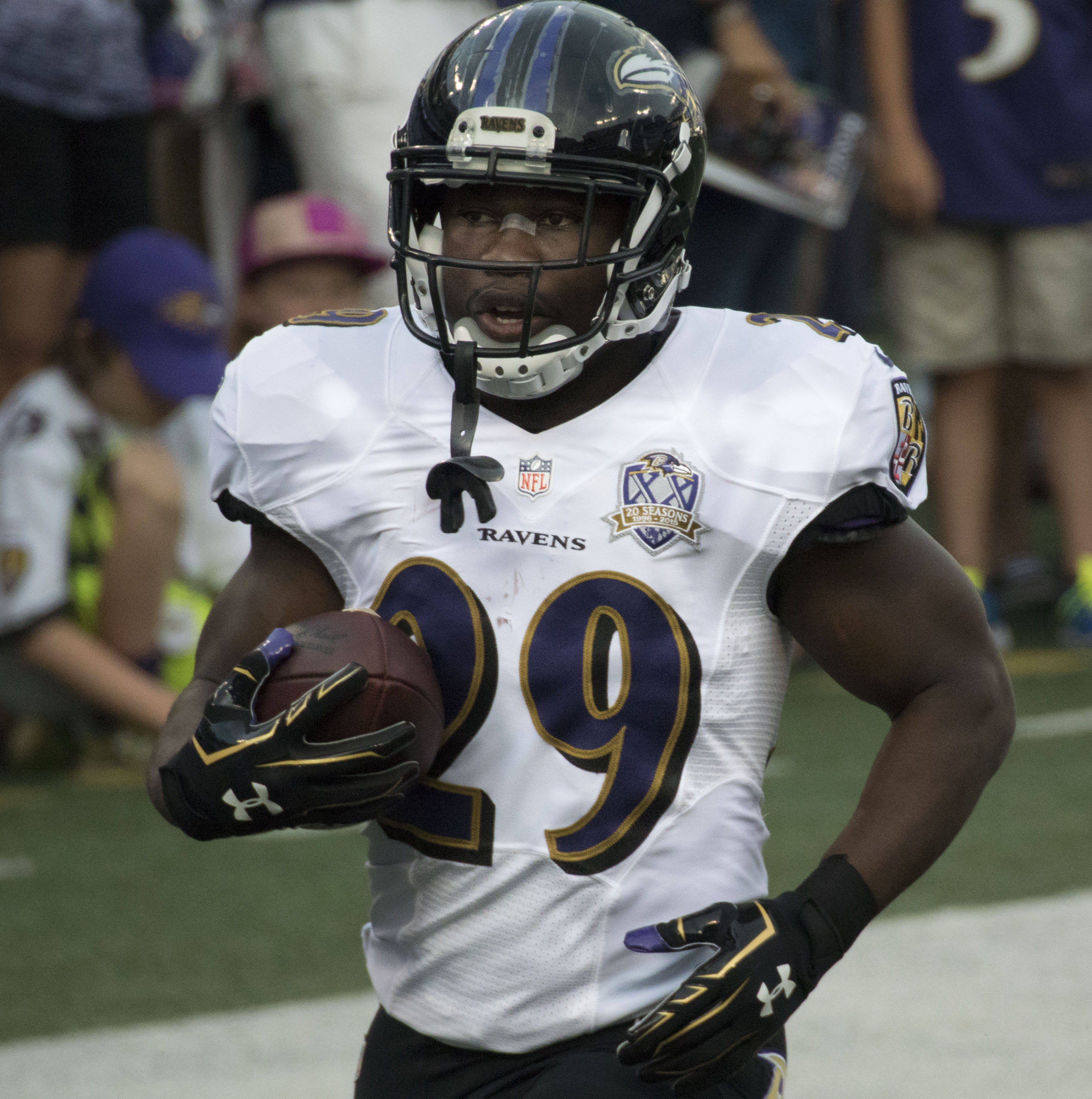 Saints at Ravens 8/13/15